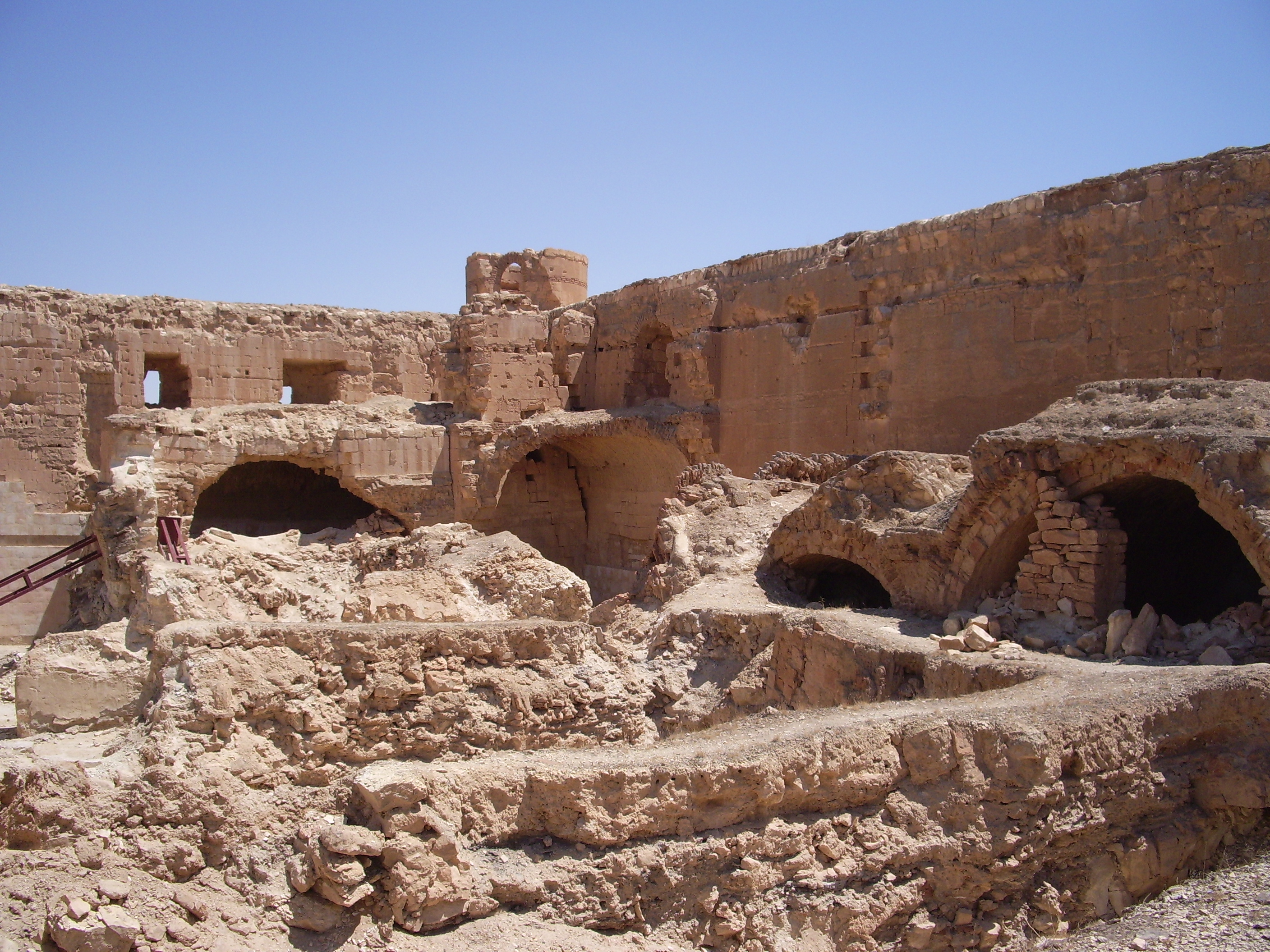 Qasr al-Heir al-Sharqi